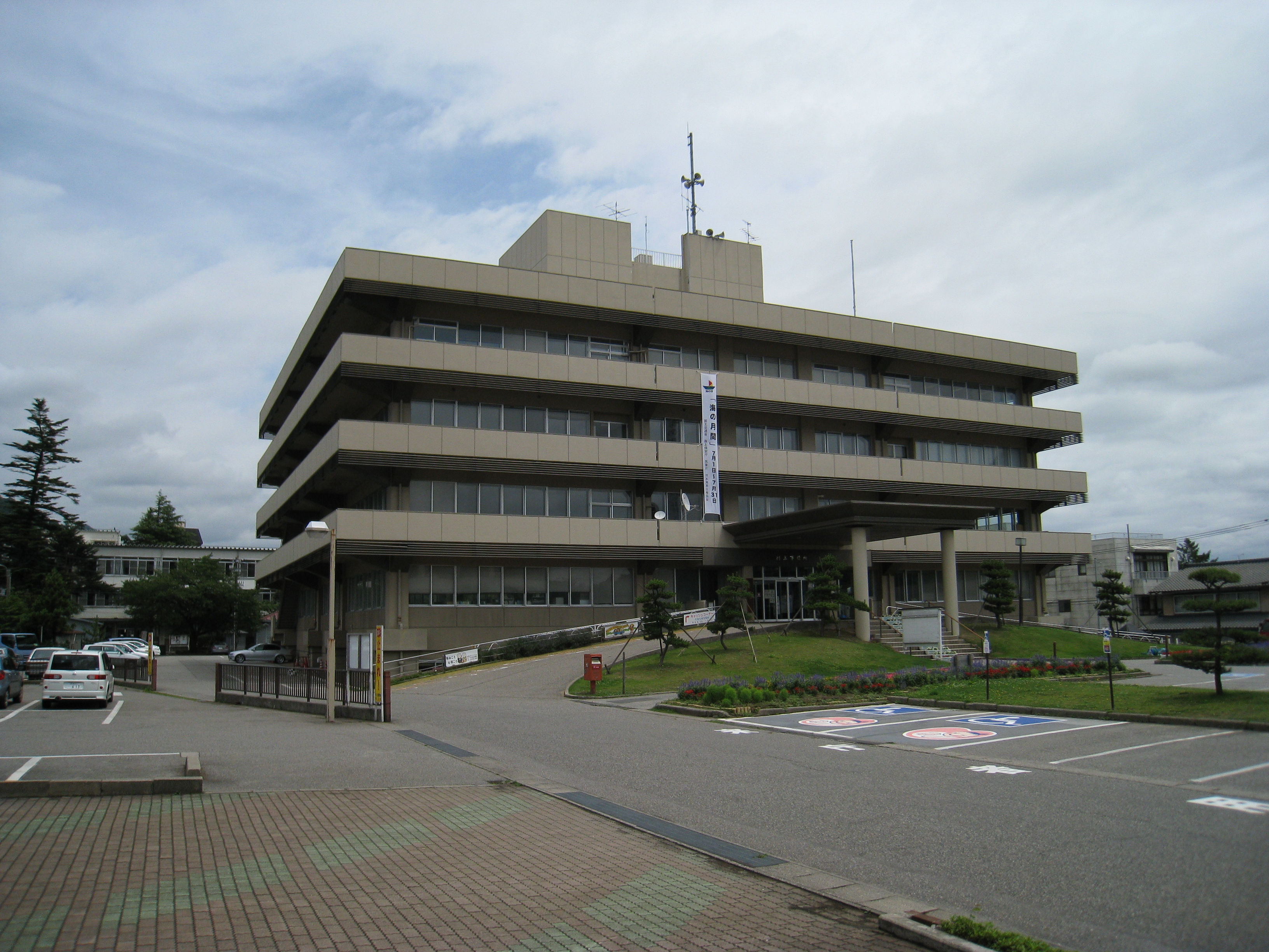 Murakami CityHall. Murakami-city, Niigata-Pref, Japan